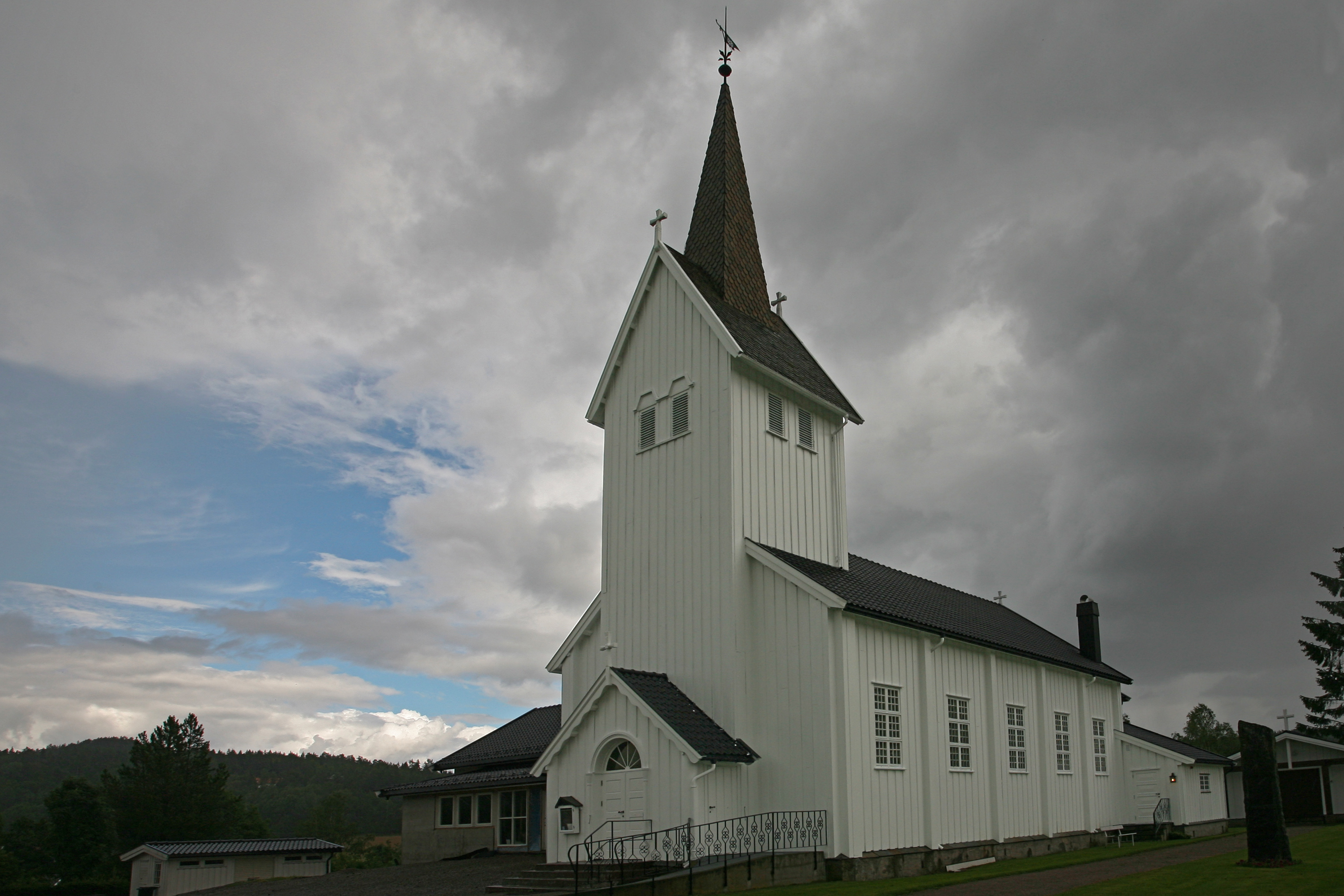 Picture of Arnadal kirke (Vestfold - Norway)